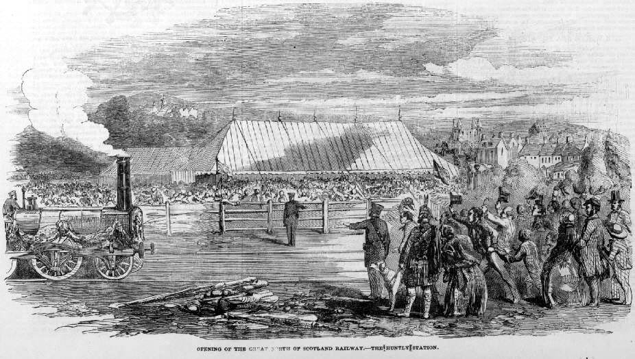 Opening of the Great North of Scotland Railway at Huntly railway station